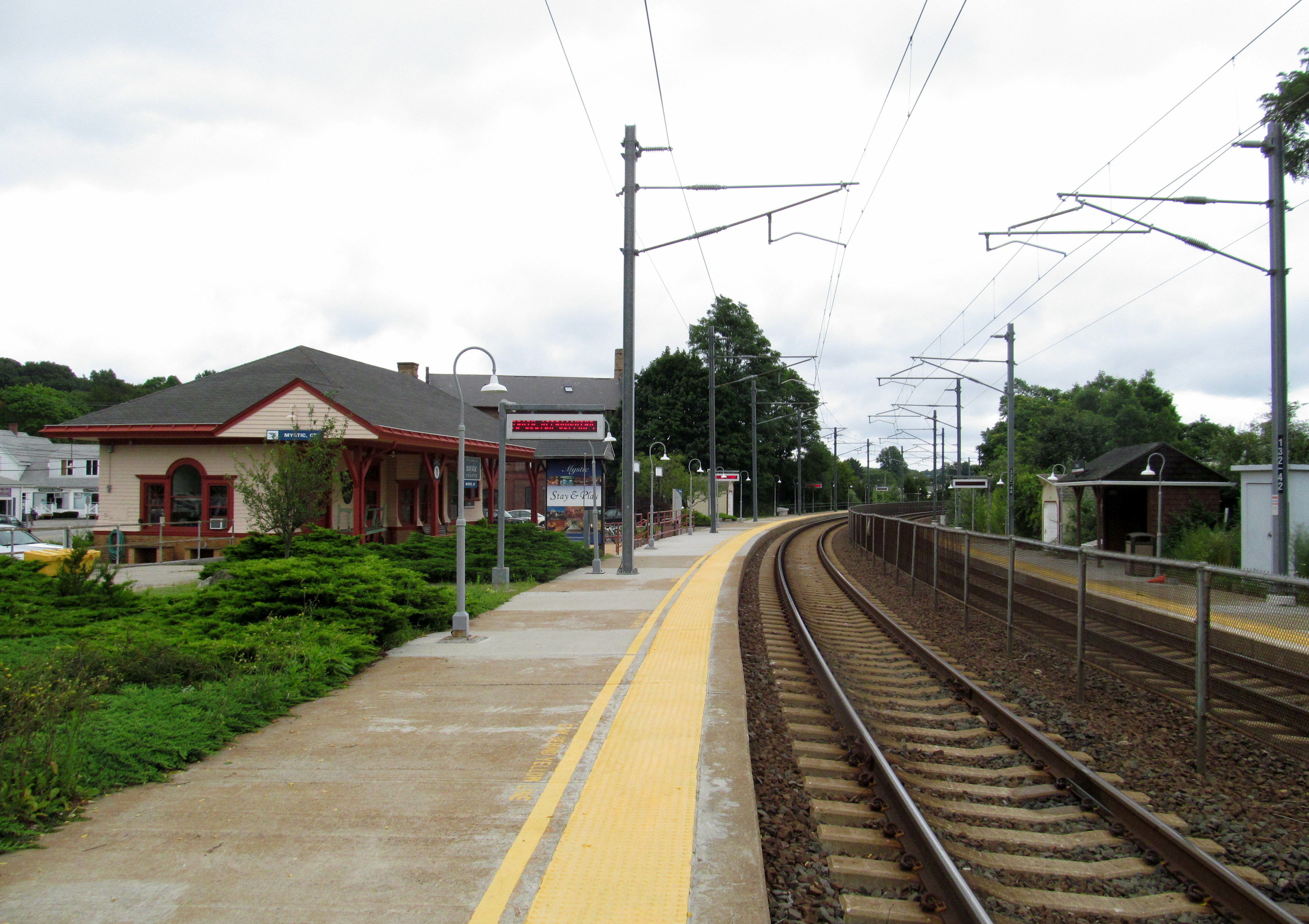 Mystic station in July 2012